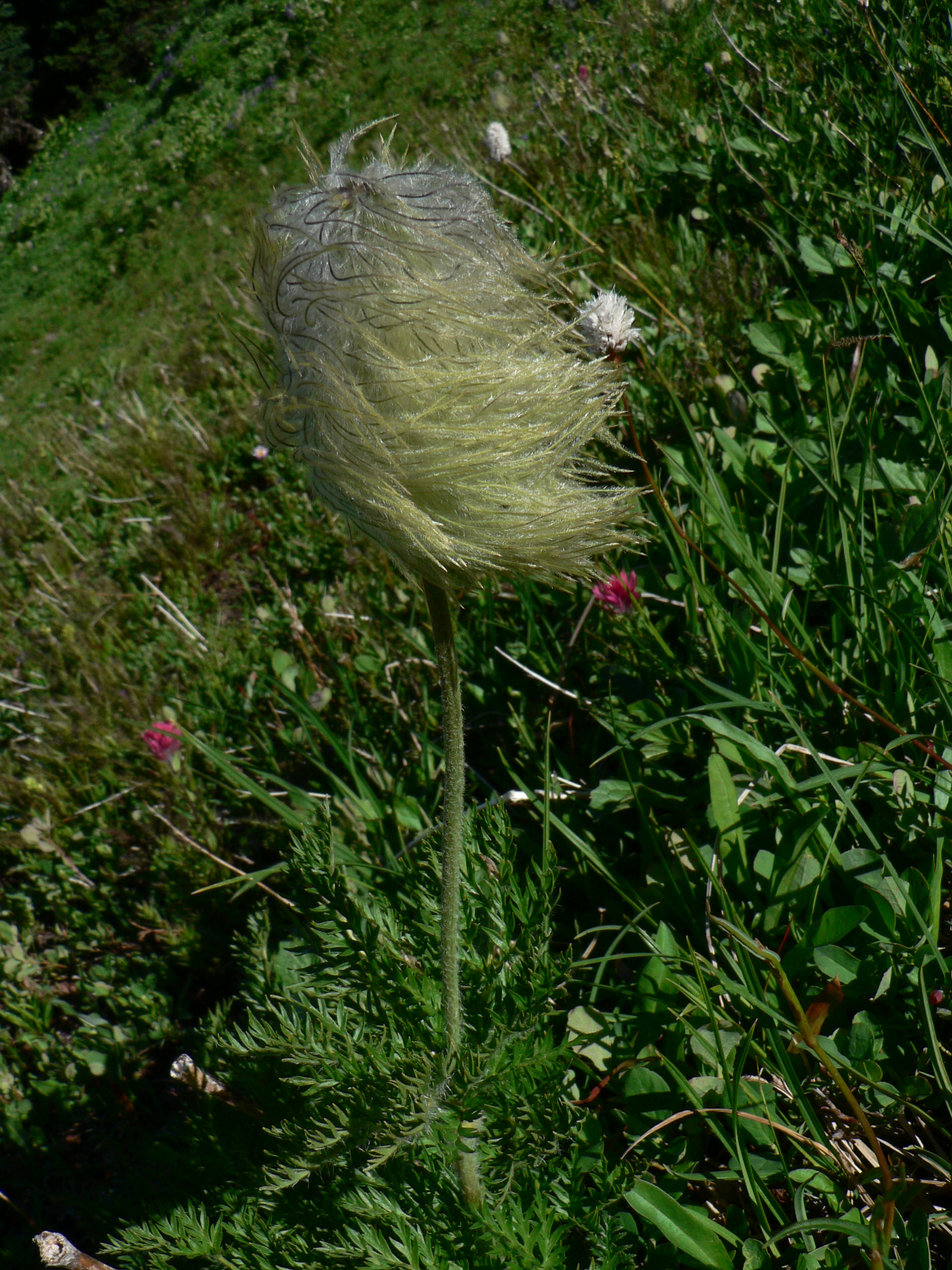 Western Pasqueflower